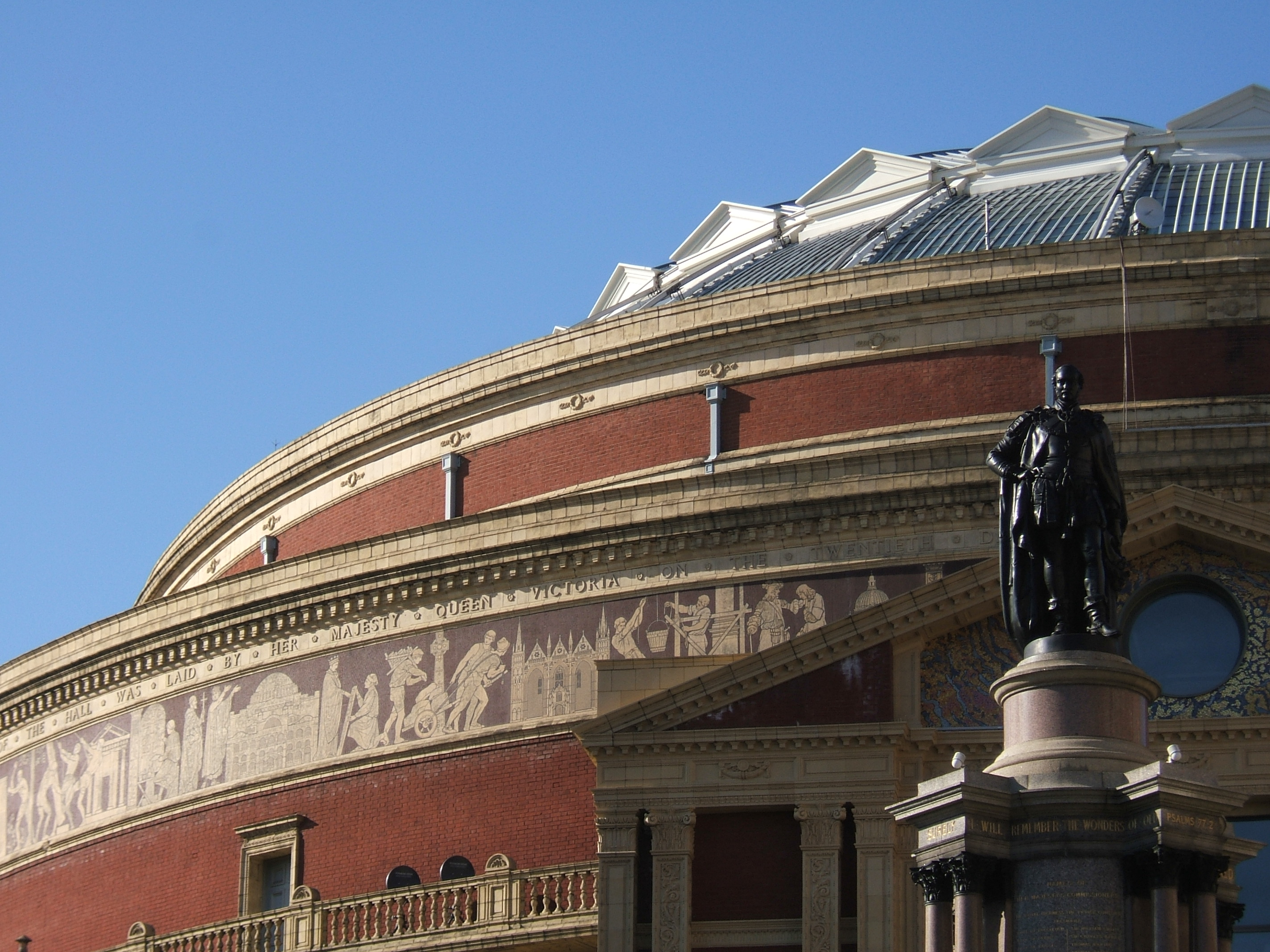 Part of roof of the Royal Albert Hall.